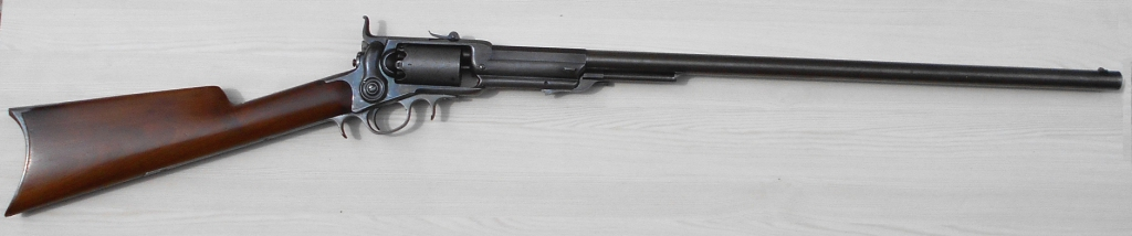 Colt Root 55 Rifle 1st Mod